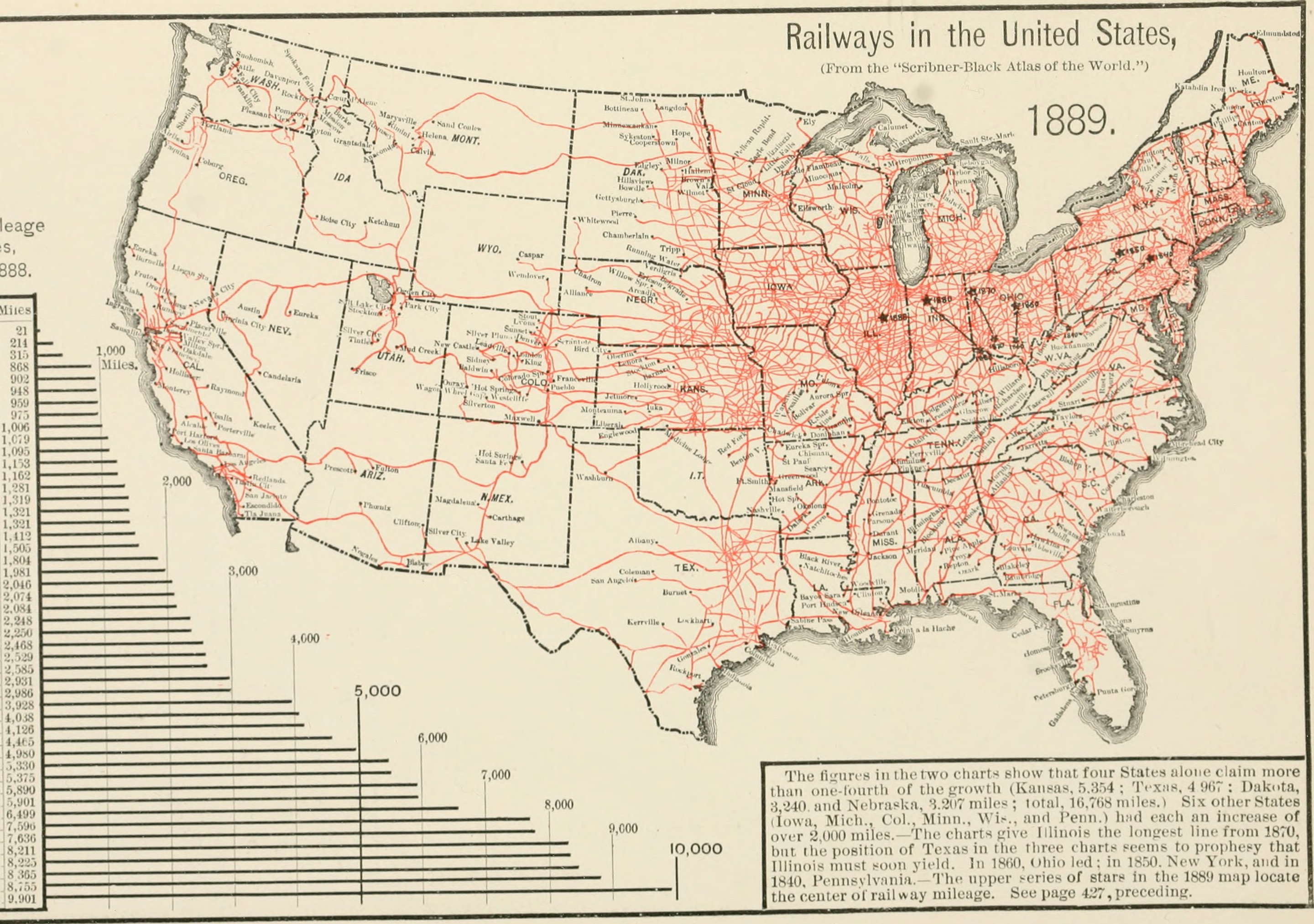 Title: The American railway; its construction, development, management, and appliances Year: 1889 (1880s) Authors: Cooley, Thomas McIntyre, 1824-1898 Clarke, Thomas Curtis, 1827-1901 Subjects: Railroads Railroads Publisher: New York : C. Scribner's sons Text Appearing Before Image: / Text Appearing After Image: 5 c« 0) Chicago, Milwaukee and St. Paul System, 1889.